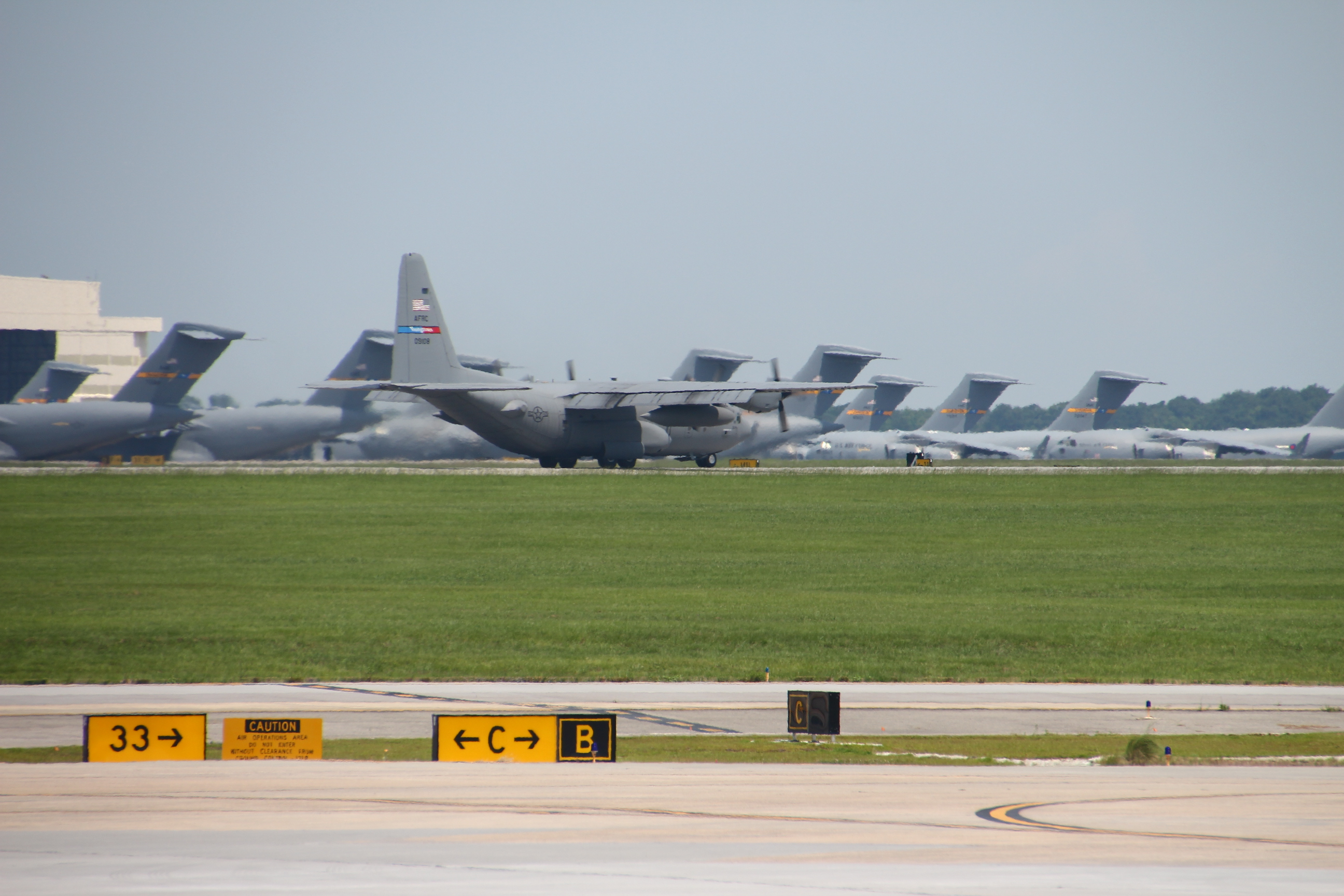 Landing strip at Charleston Field air force base in Charleston, South Carolina, as seen from Charleston International Airport.